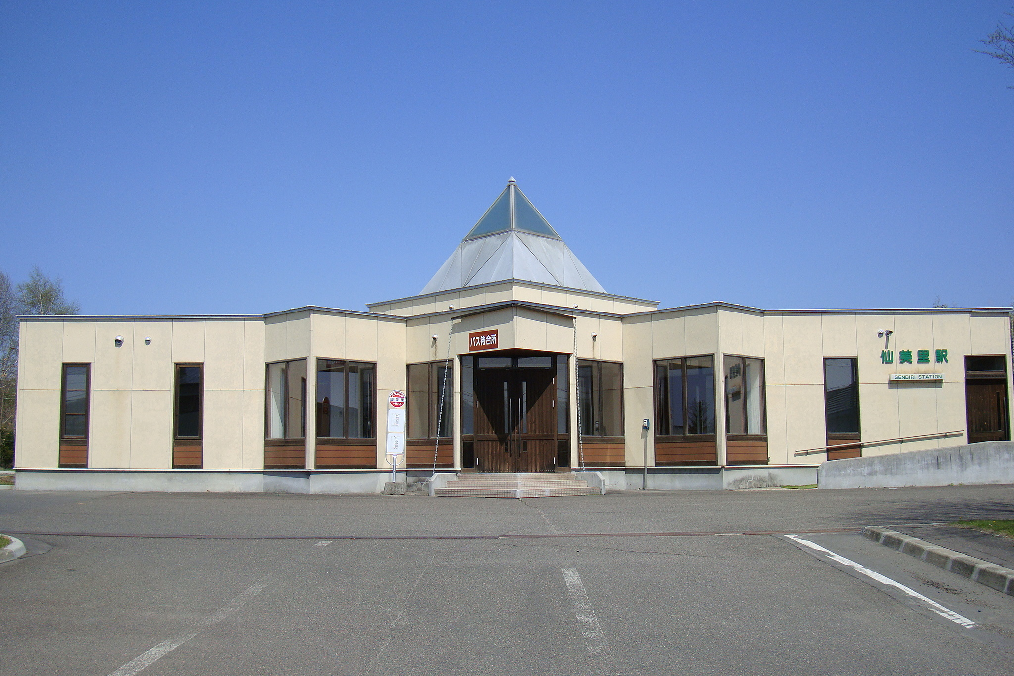 Senbiri Station. Disused train stations on Hokkaidō Chihokukōgen Railway.